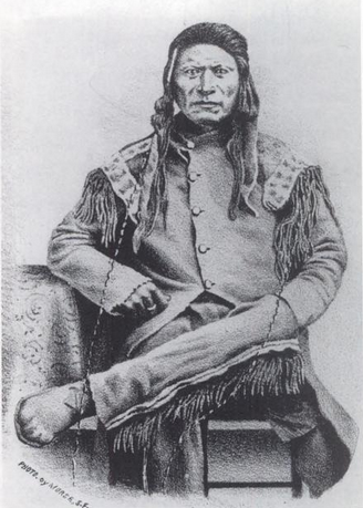 Numaga (c. 1830 - 5 November 1871), a Paiute Native American leader, in the 1860s